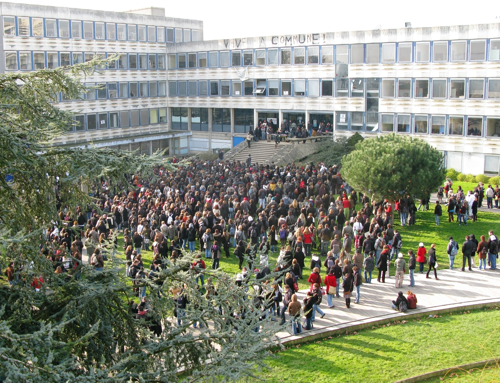 "Assemblée Générale" in the University or Rennes 2 in Rennes, France, during the 2009's university social mouvement. Students and non-students gathering in front of the "B" building. The graffiti "vive la commune" (all hail the Commune) was done the previous year and left untouched by the university's administration.